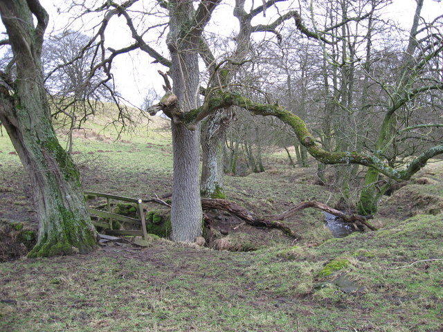 Footbridge over Chesterhope Burn